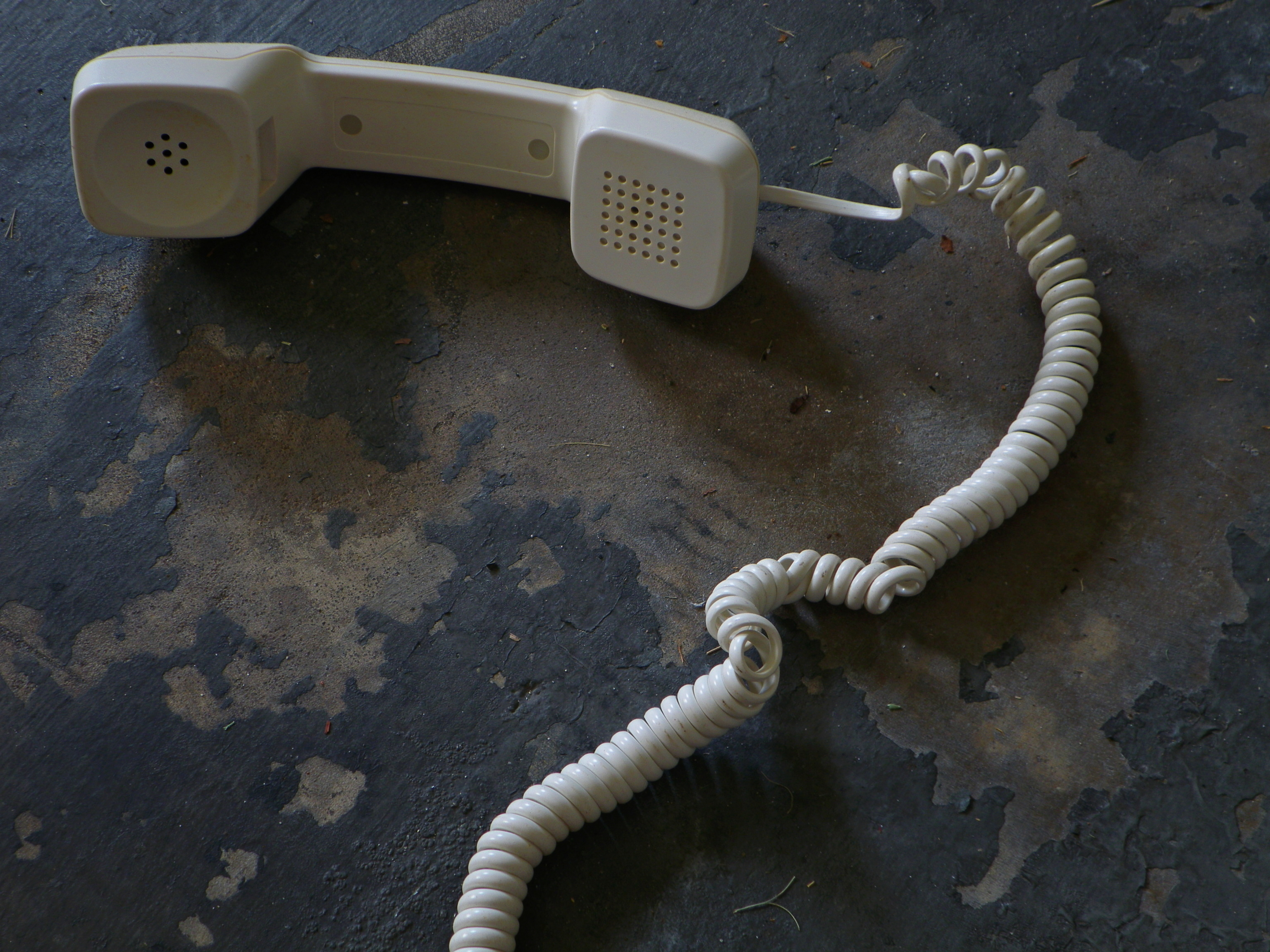 Touch me and I end up singing